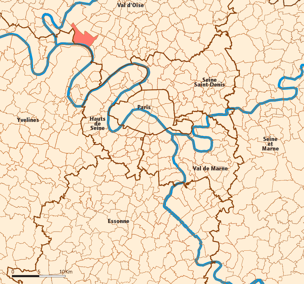 Created map myself.